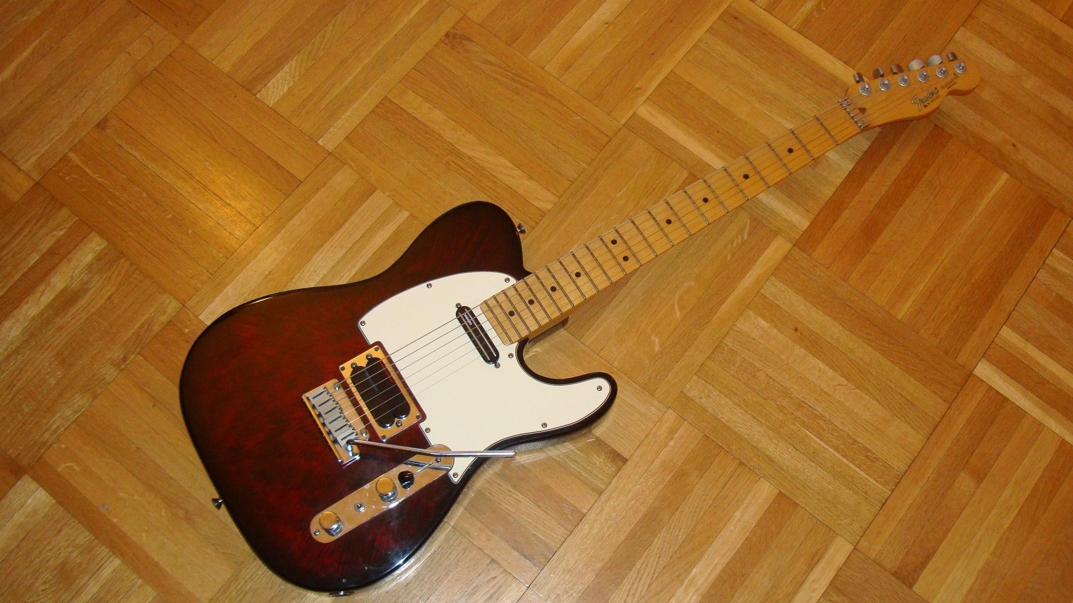 Fender Telecaster Plus Deluxe 1989